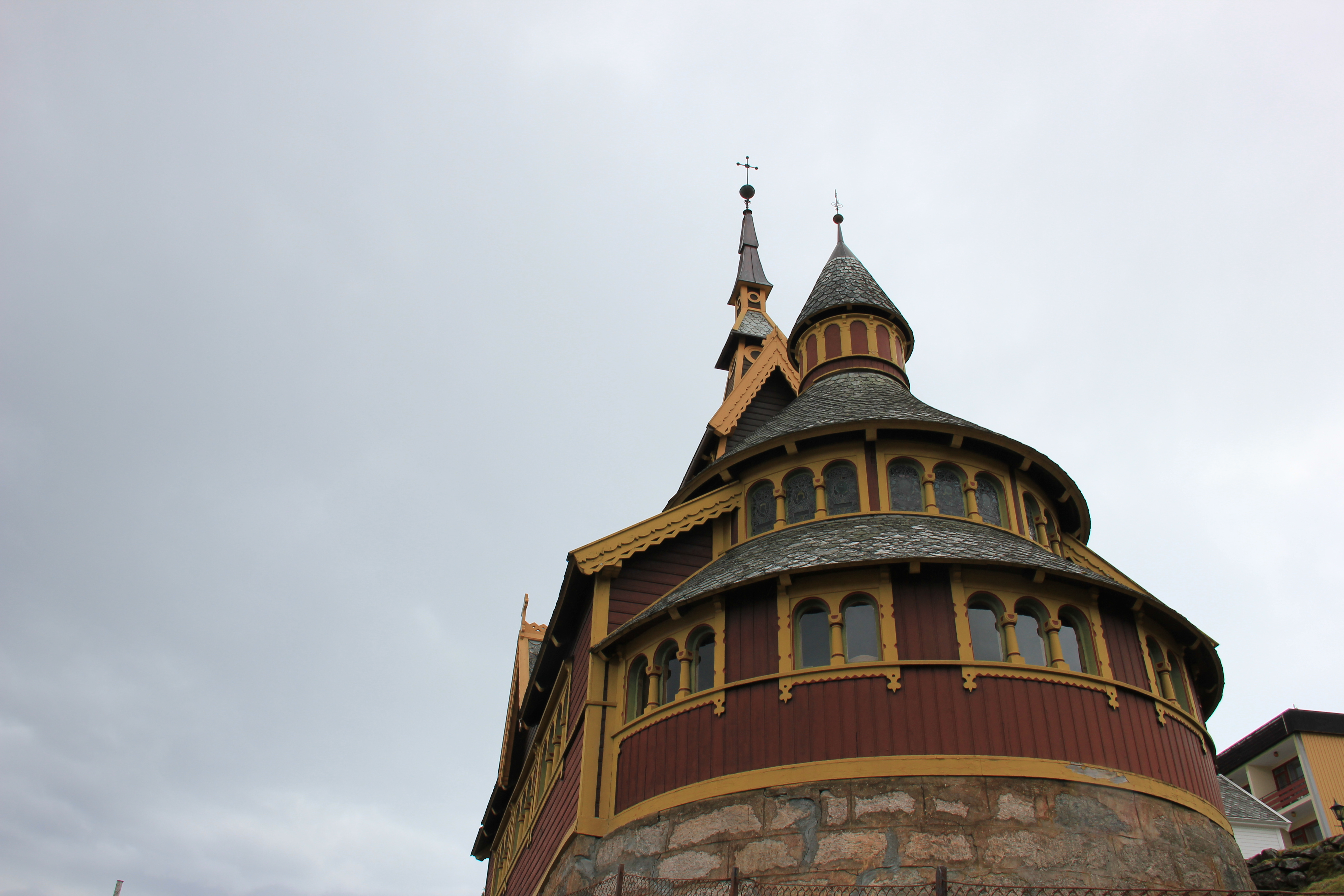 The English church in Balestrand, Sogn og Fjordane